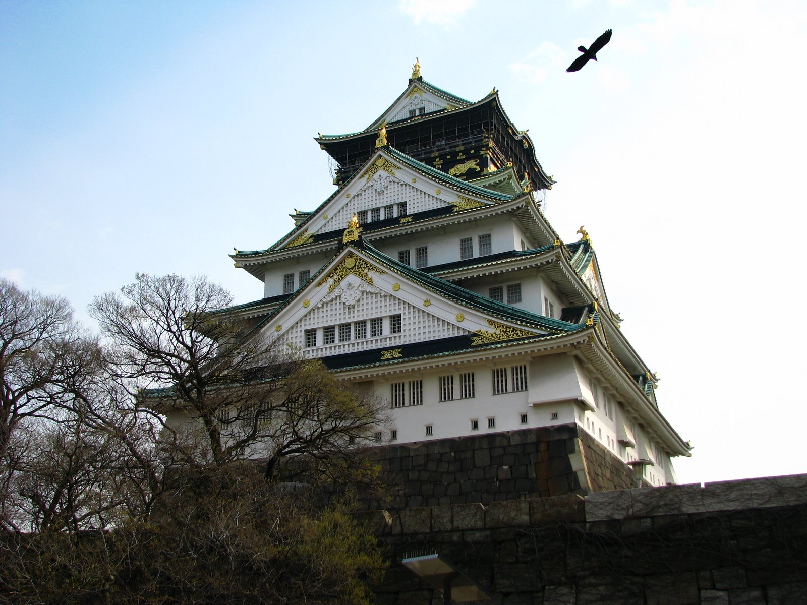 Osaka Castle in February